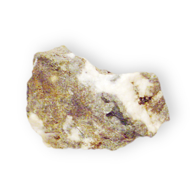 These mineral images are free to use how you wish.